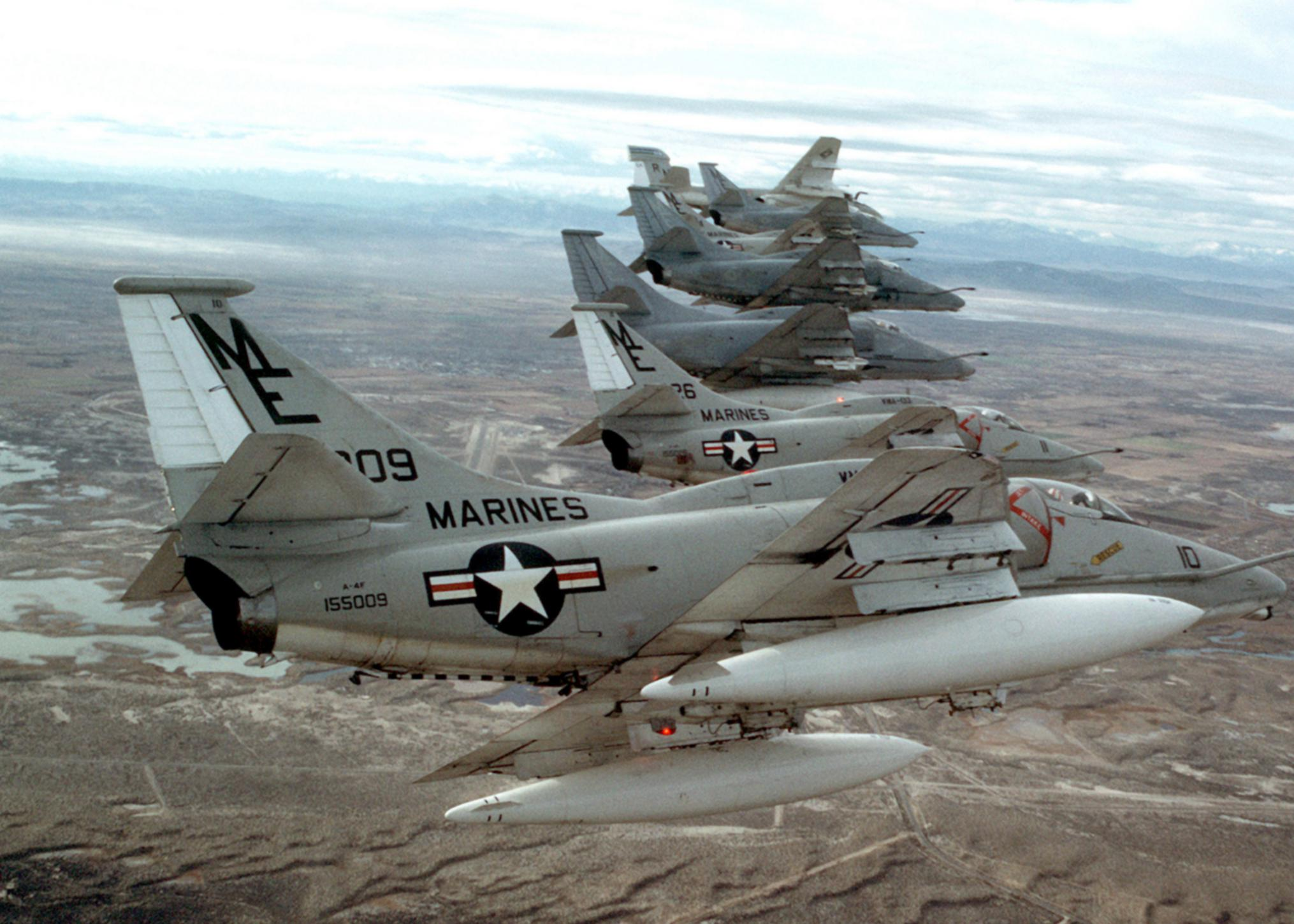 Six U.S. Marine Corps Reserve Douglas A-4F Skyhawk aircraft from Marine Attack Squadron 133 (VMA-133) and a Grumman EA-6A Intruder from Marine Electronic Countermeasures Squadron 4 (VMAQ-4) banking to the left in echelon formation near Naval Air Station Fallon, Nevada (USA), in 1982.